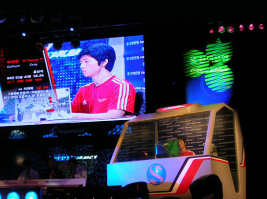 Bak Tae-min playing in the second Shinhan proleague.